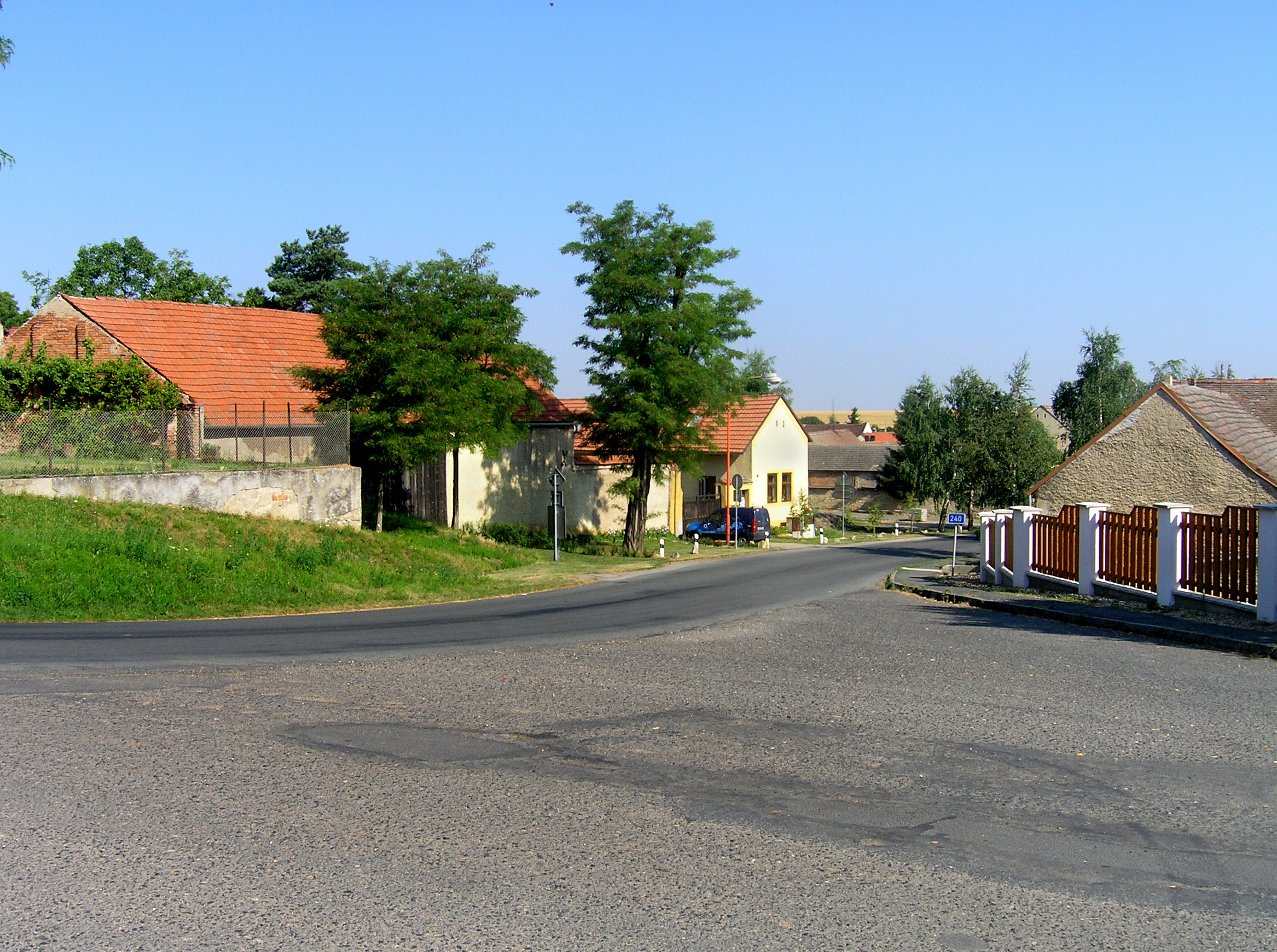 Middle part of Bříza, Czech Republic